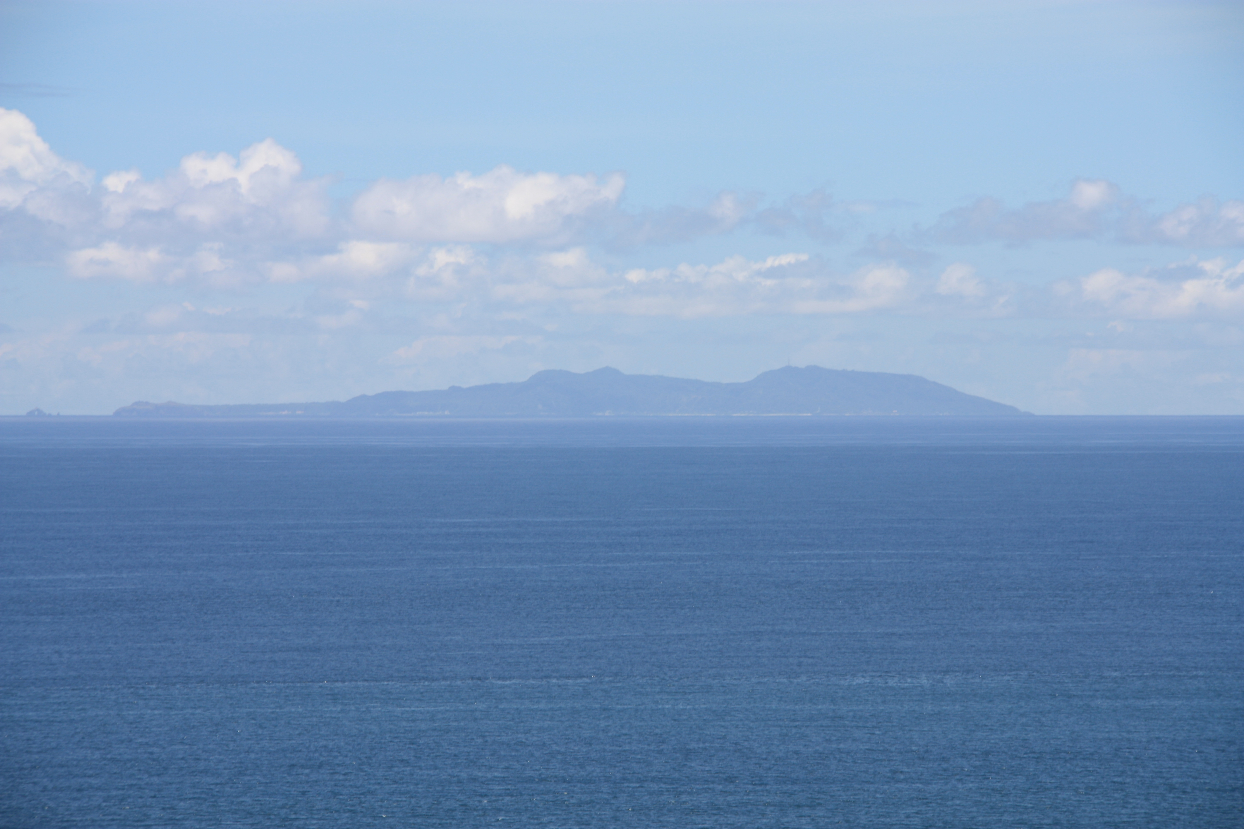 Taitung County DōngHé Township Chintsun Lǜ Dǎo (Green Island)